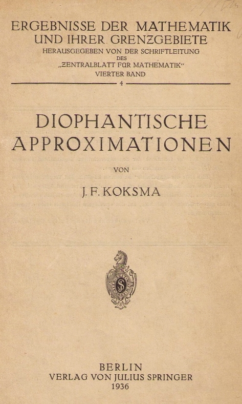 Title page of Jurjen Koksma's main work: his book "Diophantische Approximationen"